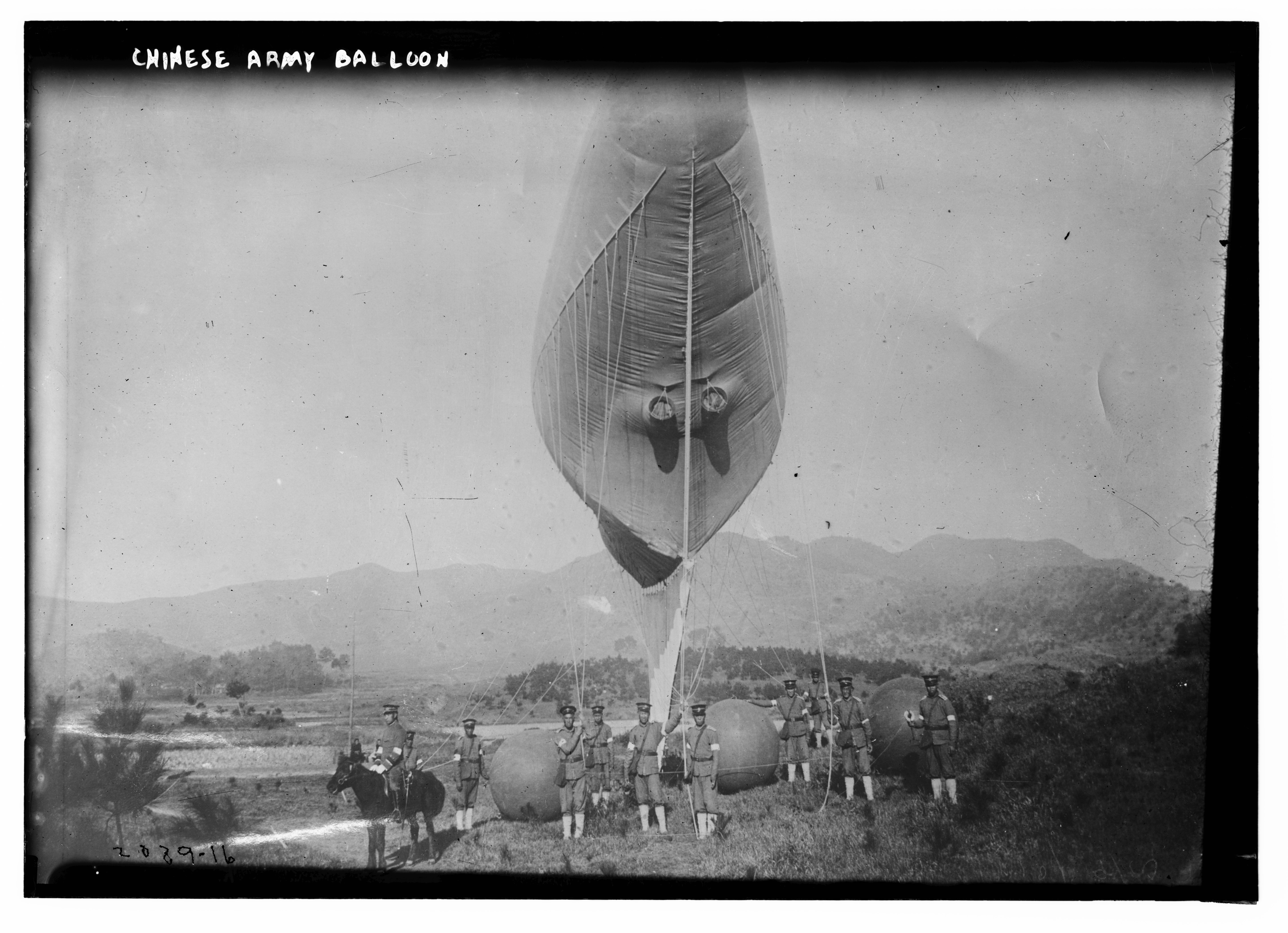 Title: Chinese army balloon Abstract/medium: 1 negative : glass ; 5 x 7 in. or smaller.